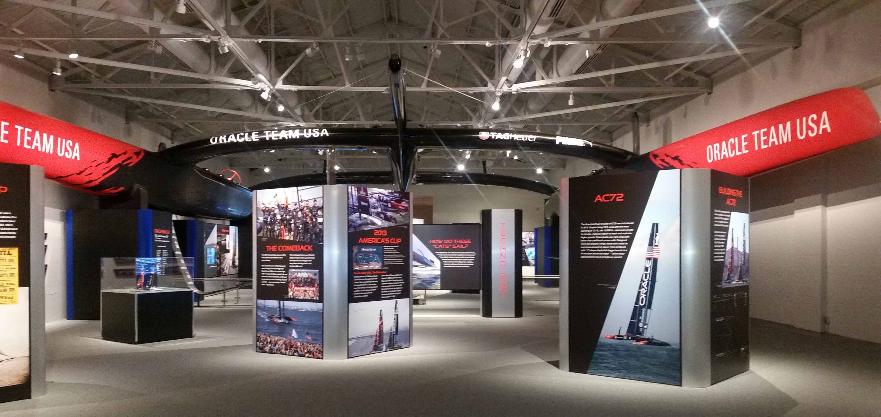 This image shows Oracle Team USA's AC72 on display at The Mariners' Museum in Newport News, Virginia in the exhibition Speed and Innovation in the America's Cup.